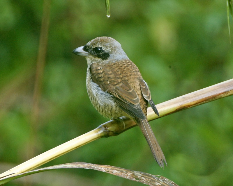 Tiger Shrike Lanius tigrinus Panti Forest, Johor, Malaysia 18th. November 2007 _Q0S1474